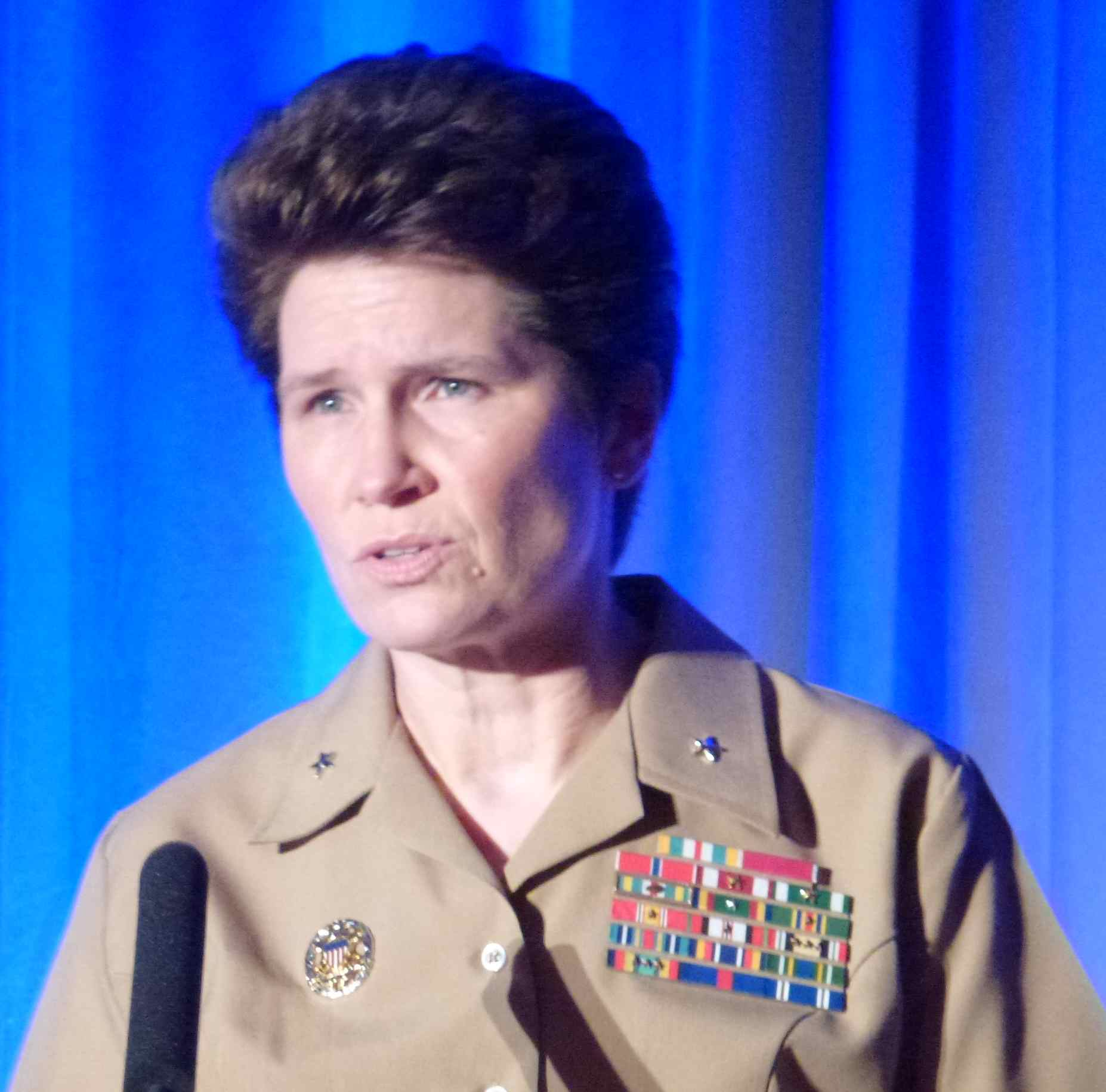 Lori Reynolds a general in the United States Marine Corps in charge of the Marine Corps Recruit Depot Parris Island, addressing the Women's Basketball Coaches Association at their annual meeting in New Orleans